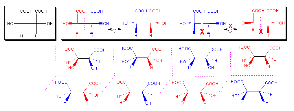 Meso ethane.png